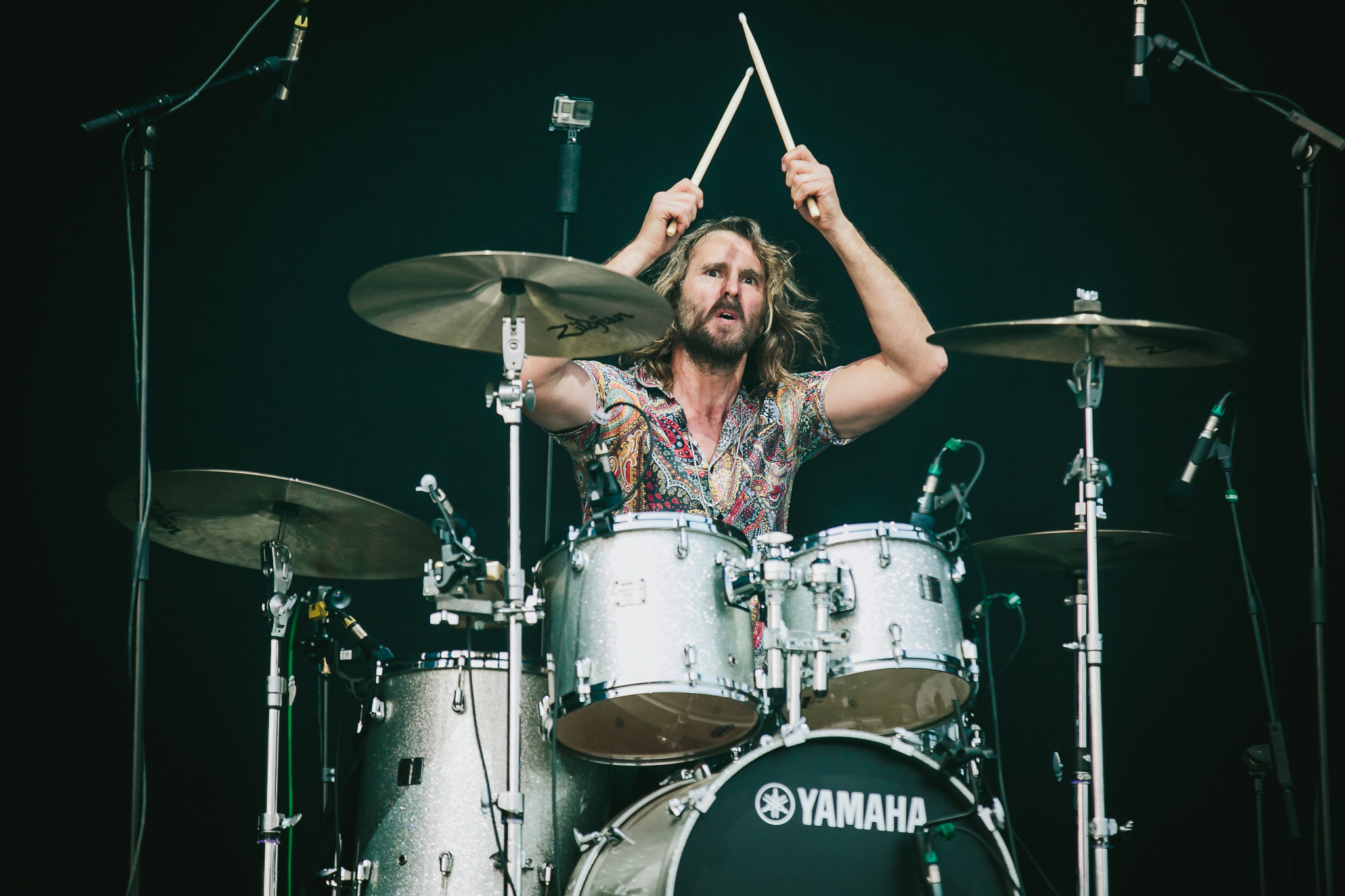 Wolfmother at Deichbrand Festival 2018